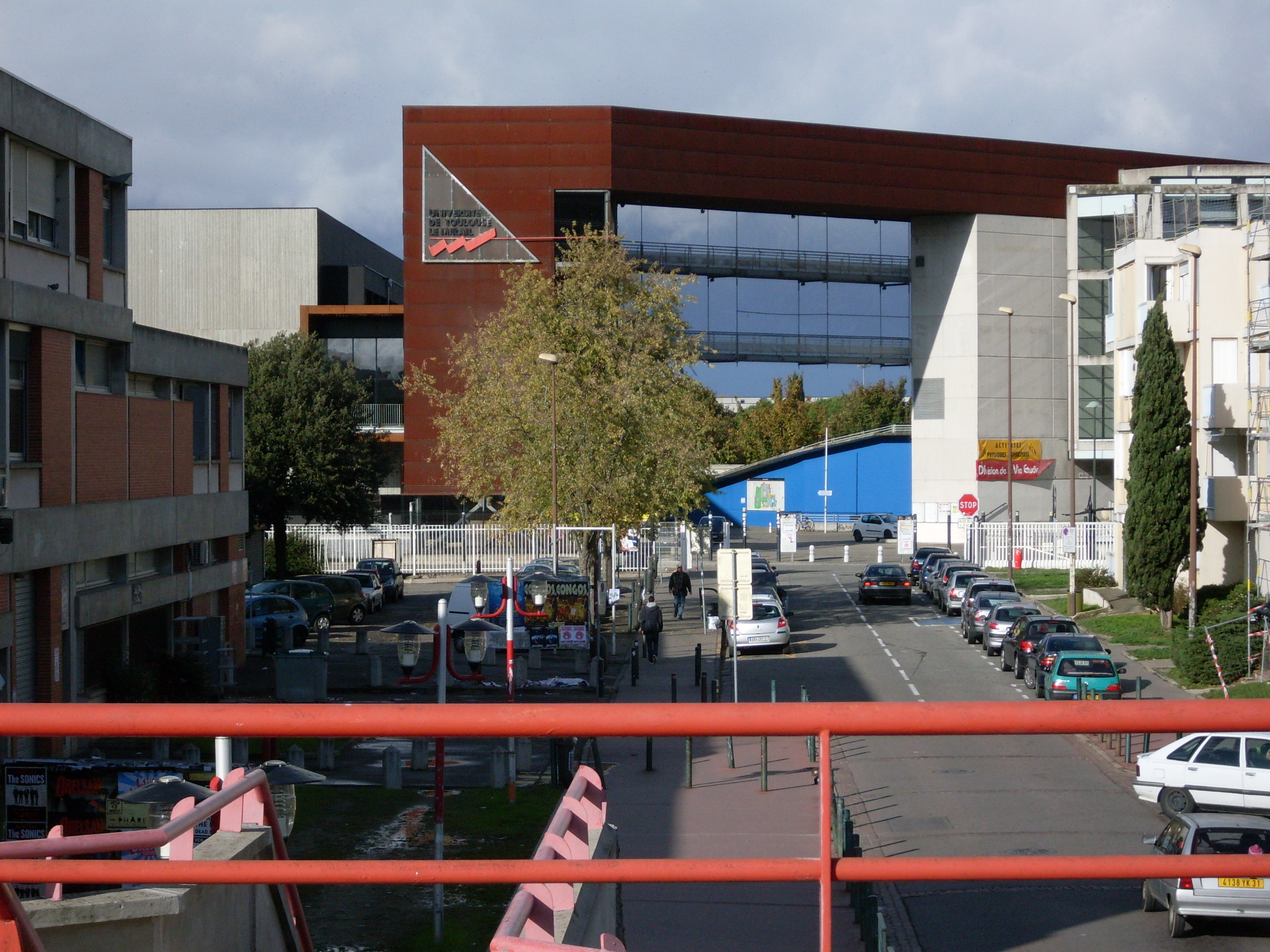 Entrance to the university Toulouse le Mirail